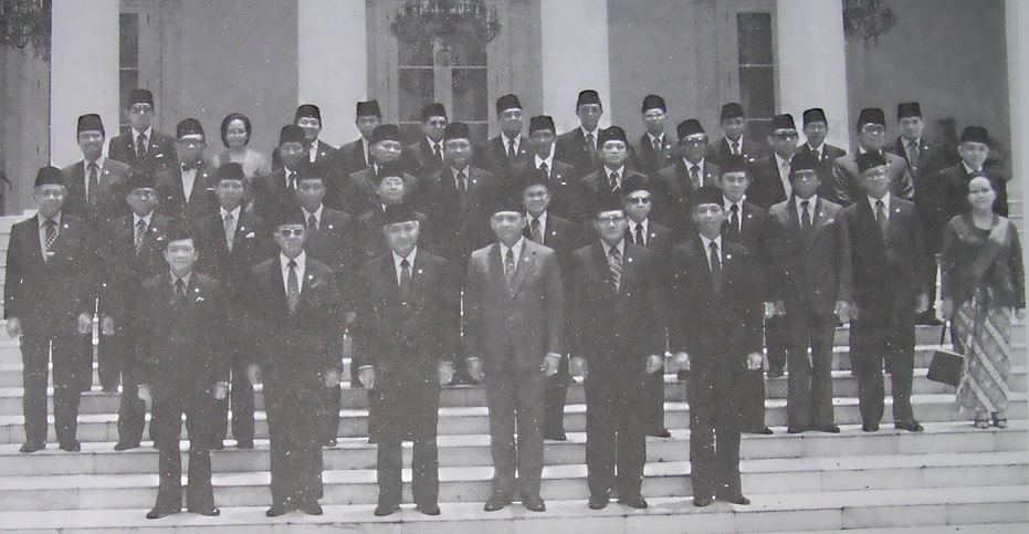 Official photo of Indonesian President Suharto Vice-president Umar Wirahadikusumah and the Fourth Development Cabinet